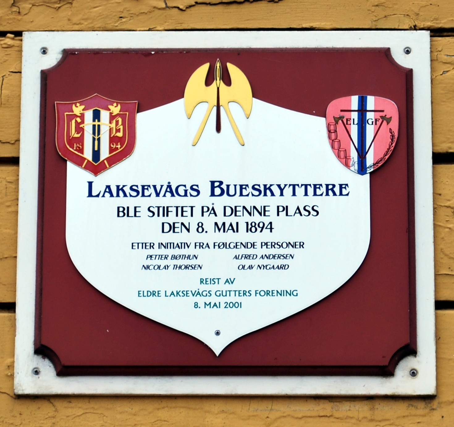 Sign commemorating the foundation of Laksevågs bueskyttere, a buekorps from Laksevåg in in Bergen.